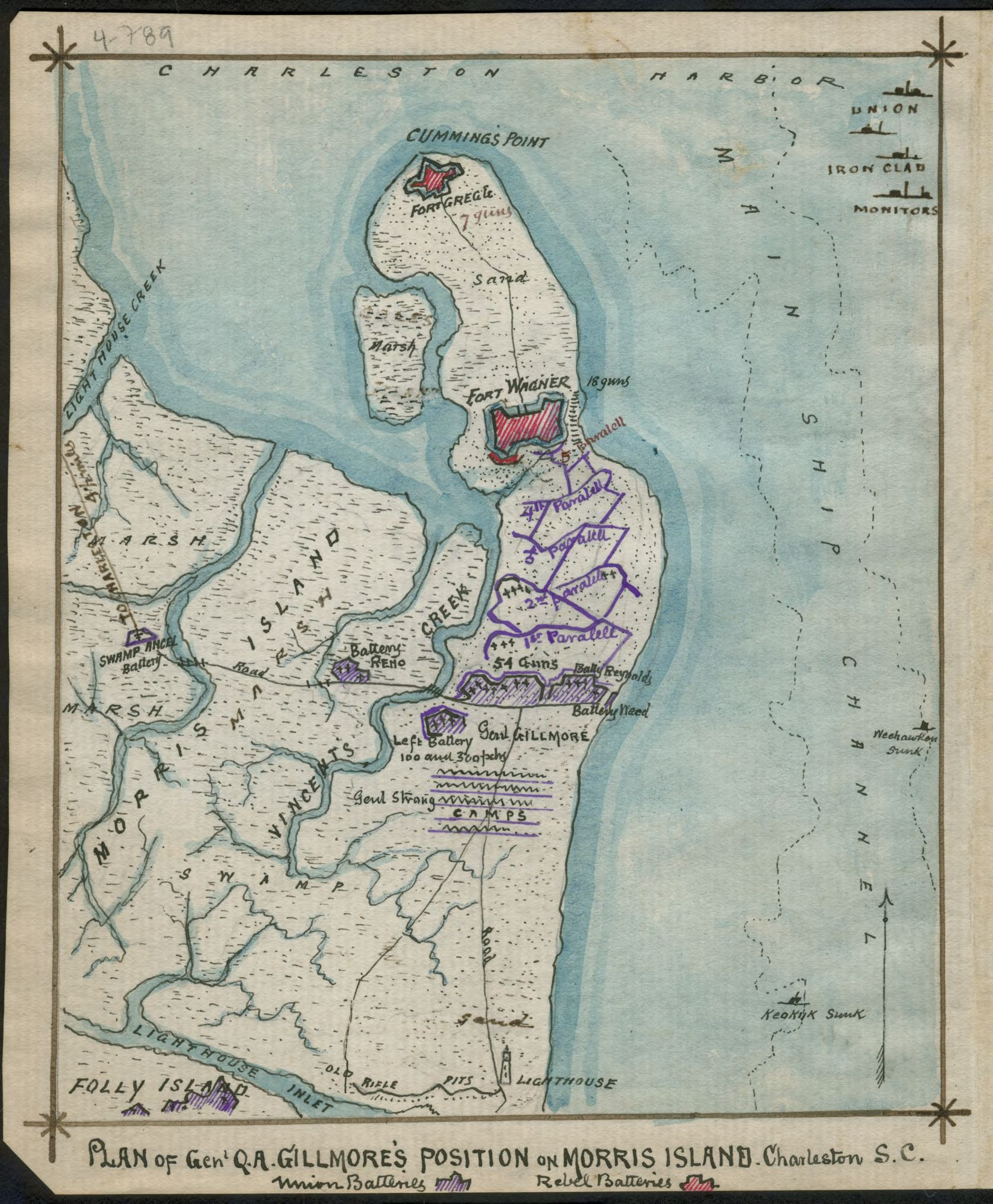 Shows the progression of earthworks constructed to allow Union forces to approach Fort Wagner. Gillmore's troops reached the ditch surrounding the fort on September 6. The Confederate forces abandoned the fort during the night.